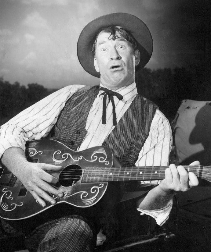 Photo of Chill Wills as Pinky Jimson in a scene from the 1949 film Tulsa.